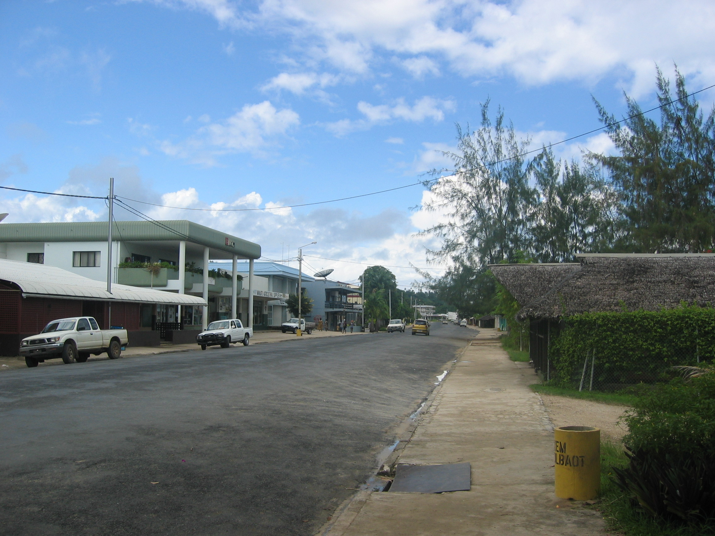 Taken in April 2005 looking down the main street of Luganville on the ni-Vanuatu island of Espiritu Santo.